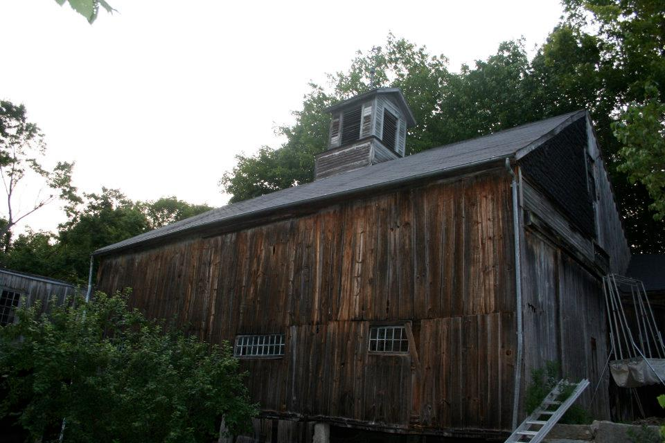 photo credit: USFWS/Ann Froschauer